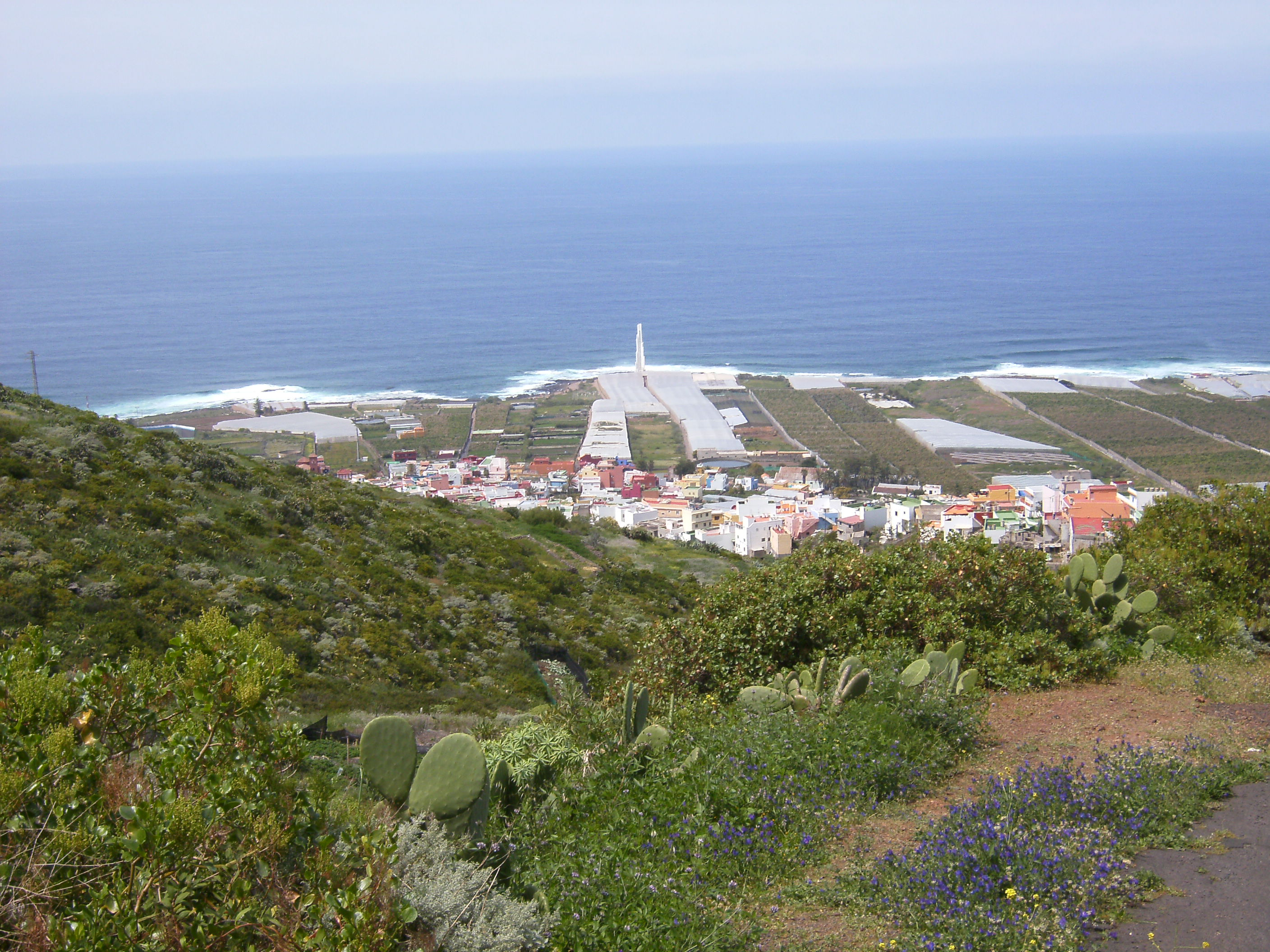 View of Punta del Hidalgo,Tenerife, with lighthouse and banana-plantations.